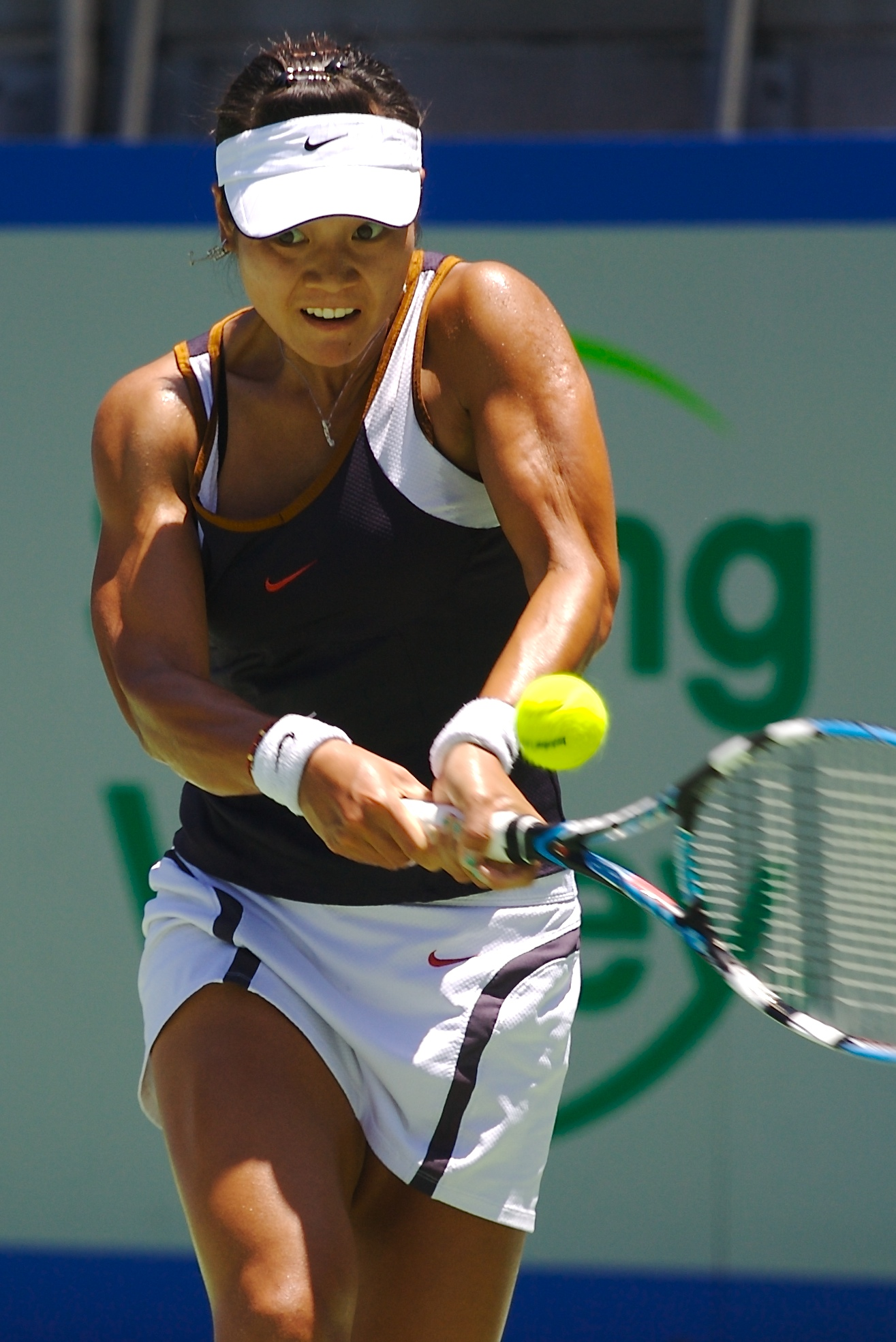 The tennis player Li Na at the 2007 Medibank International in Sydney, Australia.